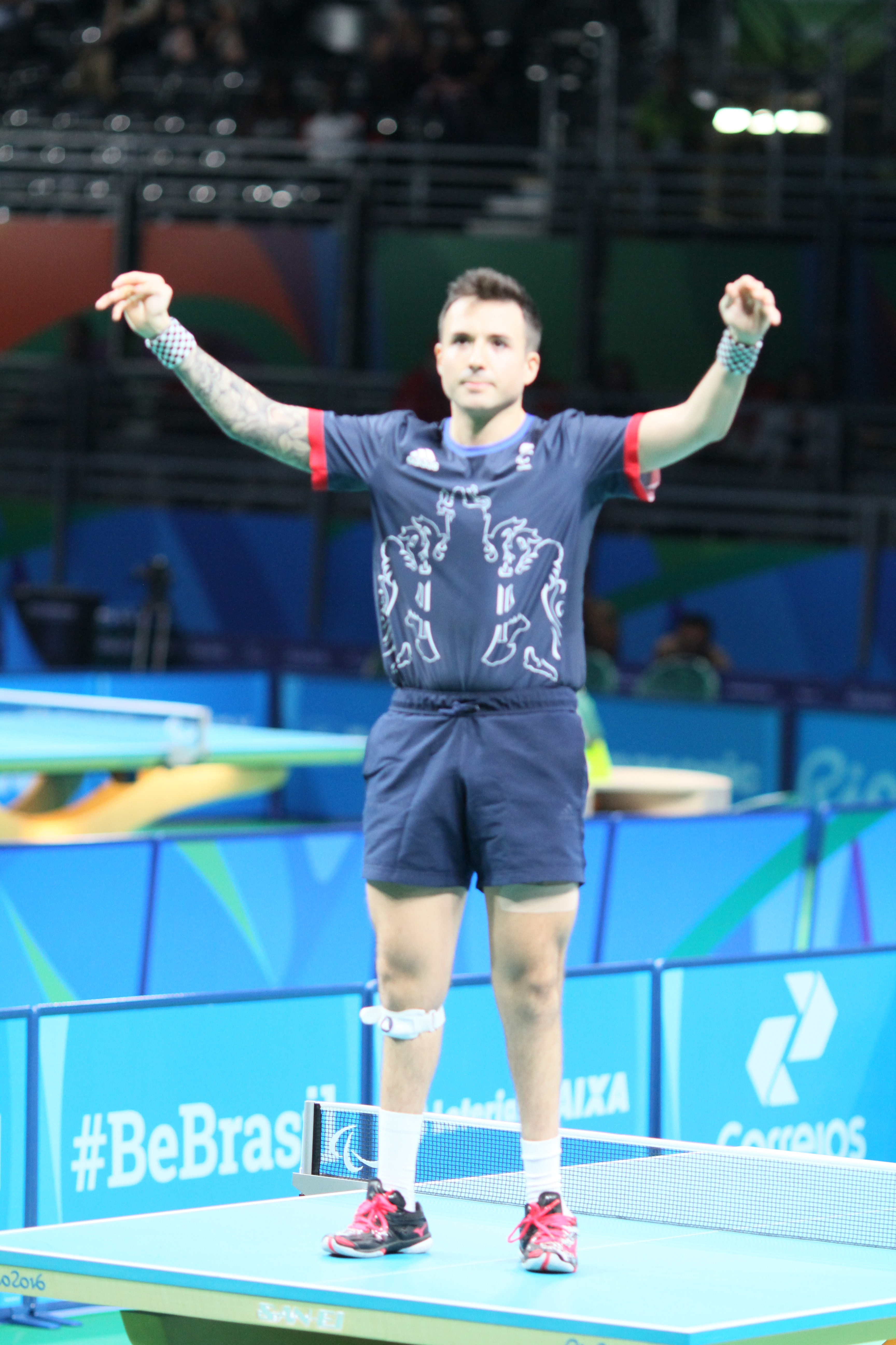 BAYLEY William John (GBR,M7) IMG_5625